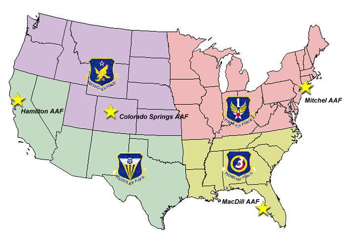 Air Defense Districts in the United States during World War II Source: author on publicly available basemap.